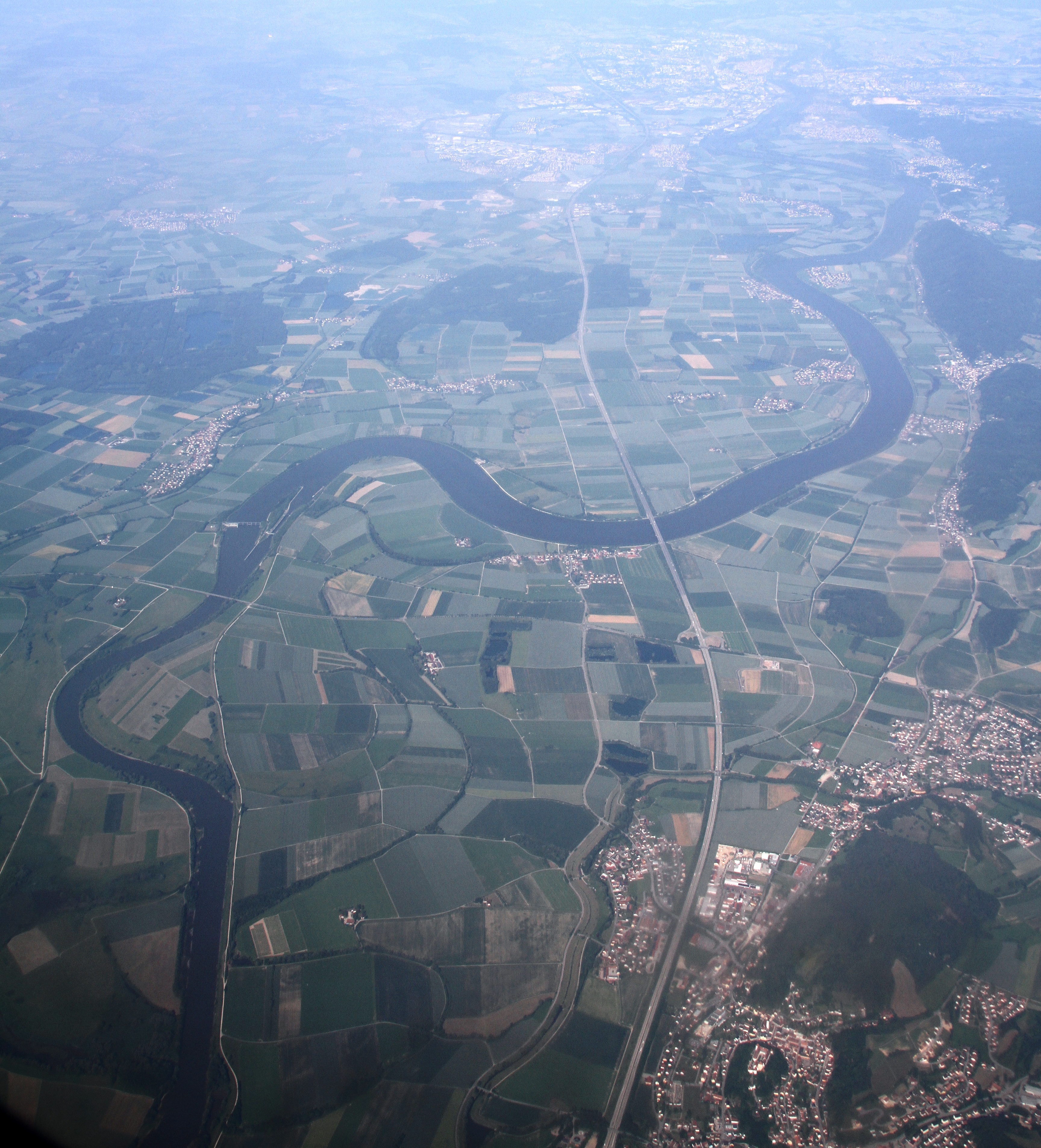 Aerial view from the county (Landkreis) of Regensburg, in eastern Bavaria (Germany)